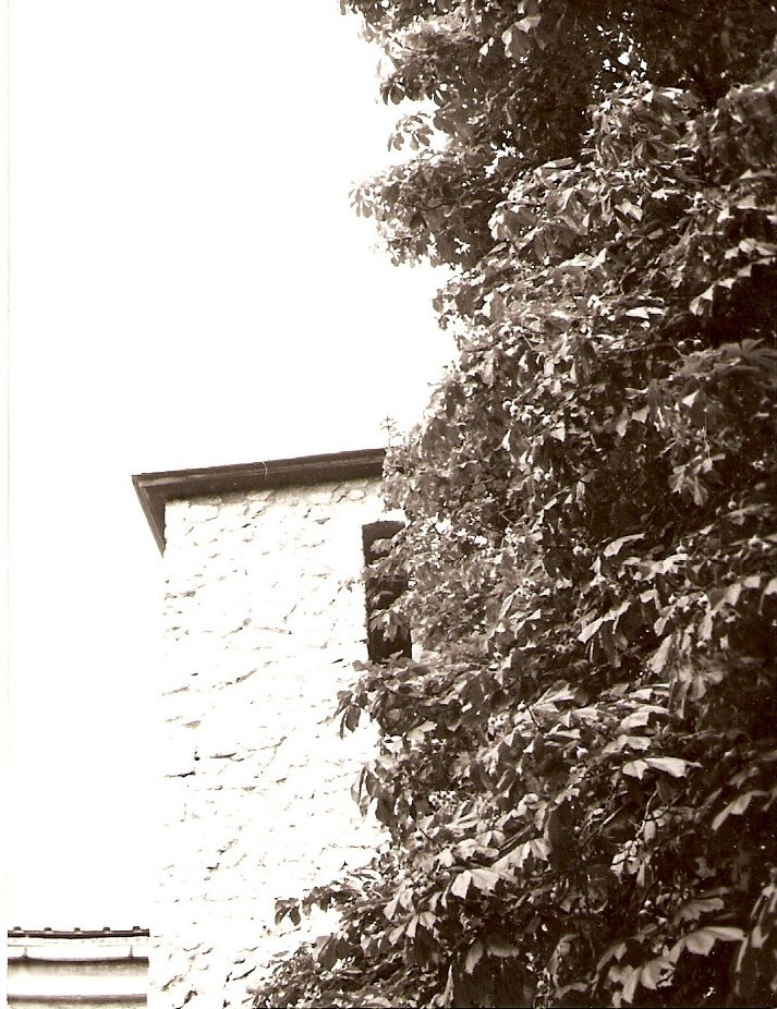 Calvinist church in Aba, Hungary.